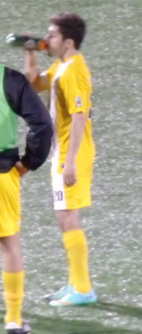 Pittsburgh Riverhounds vs. Wilmington Hammerheads 4/12/14